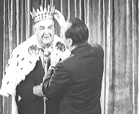 From the public domain episode of The Jack Benny Program - Don Wilson's 27th anniversary